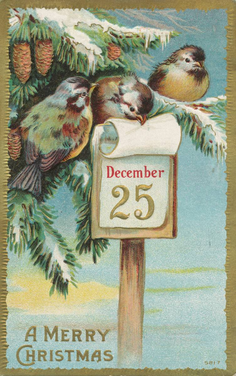 Christmas postcard ca 1900